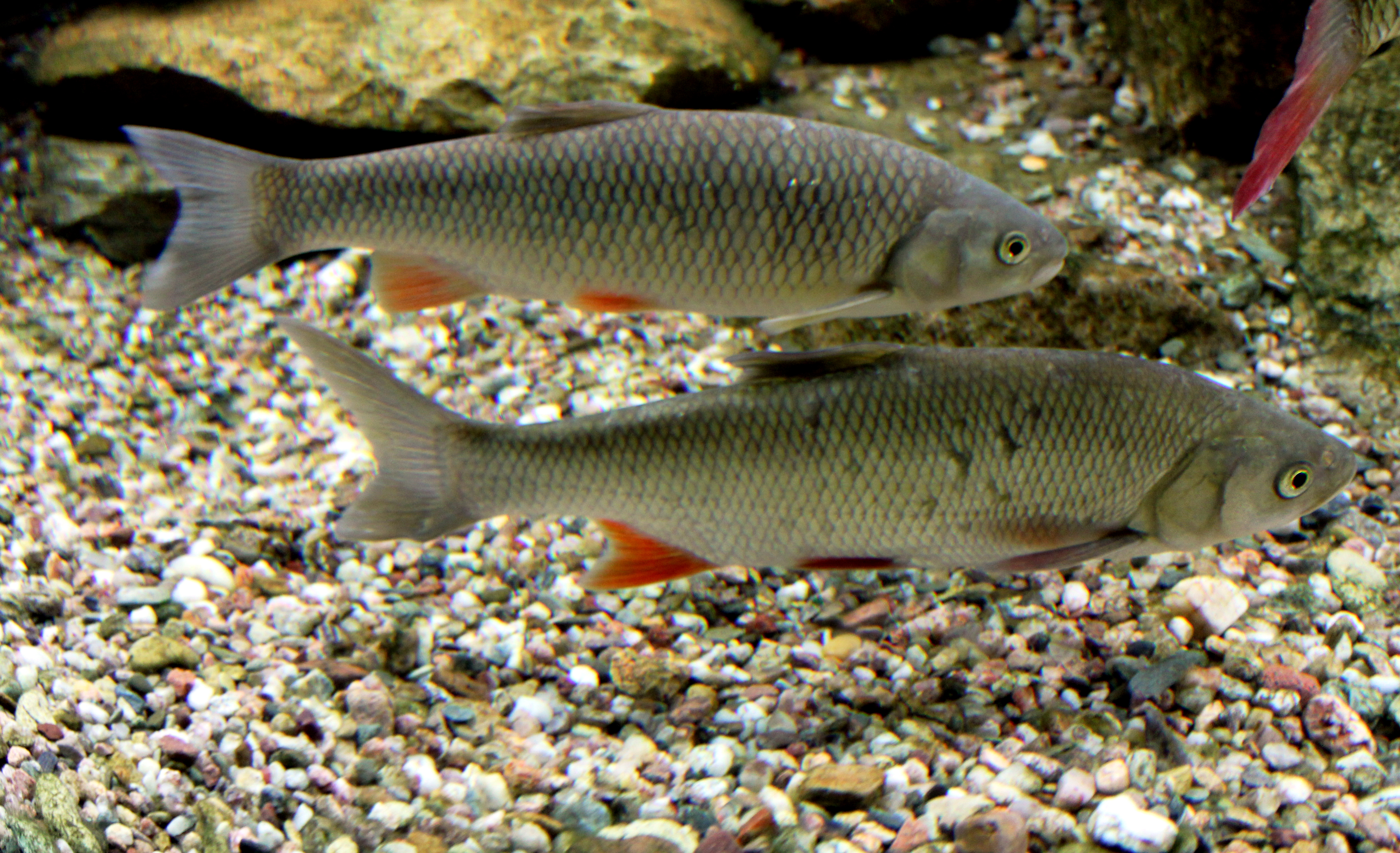 European chub on exhibition Subaqueous Vltava, Prague 2011, Czech Republic